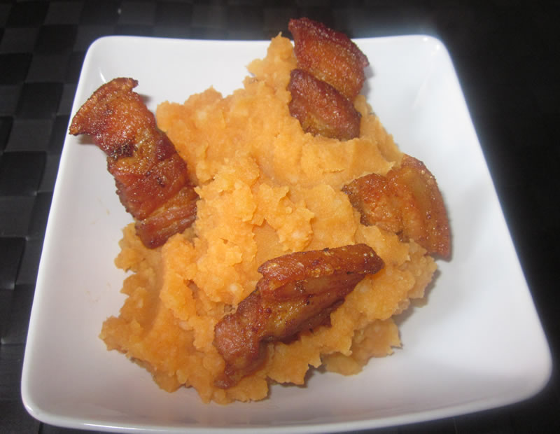 Potatoes revolconas with torreznos, typical of Piedrahita (Ávila), Spain